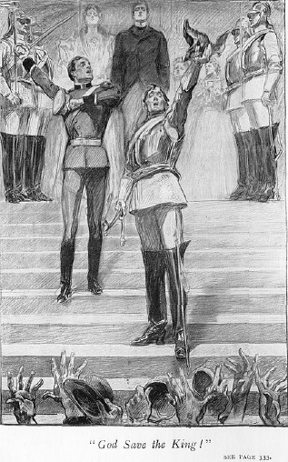 "God Save the King!", illustration from Rupert of Hentzau by Anthony Hope.